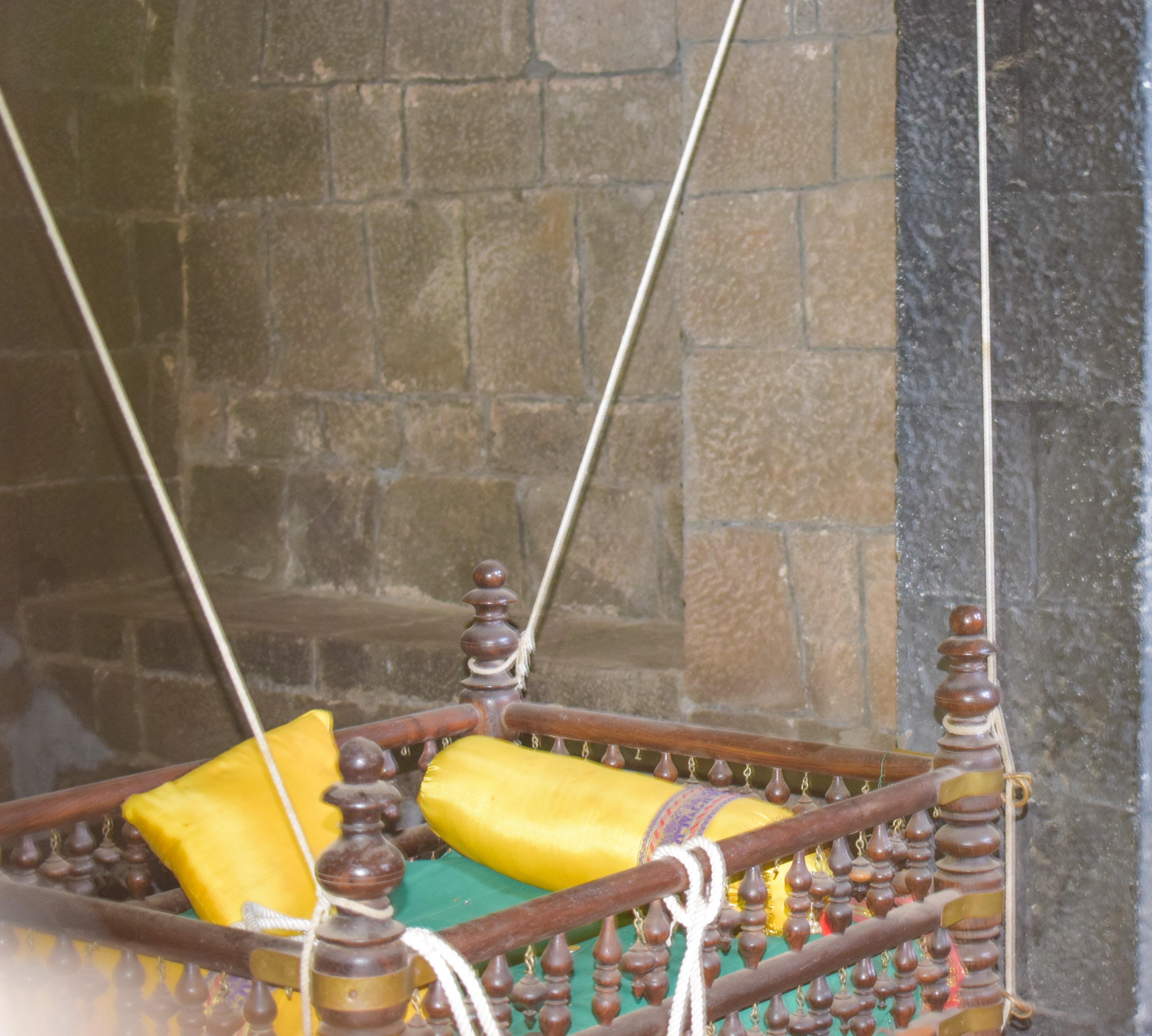 shivneri fort